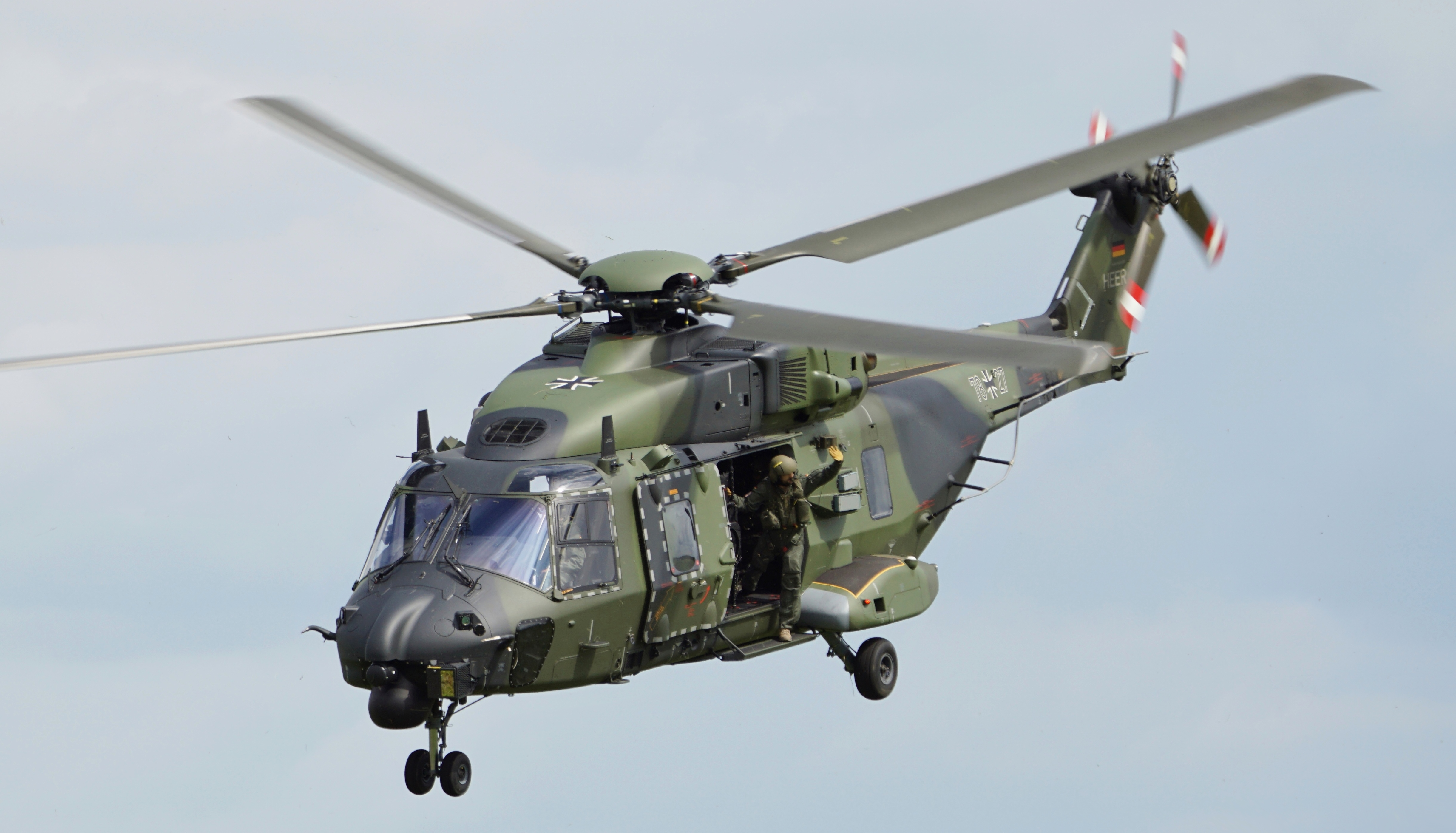 German Army NH-90